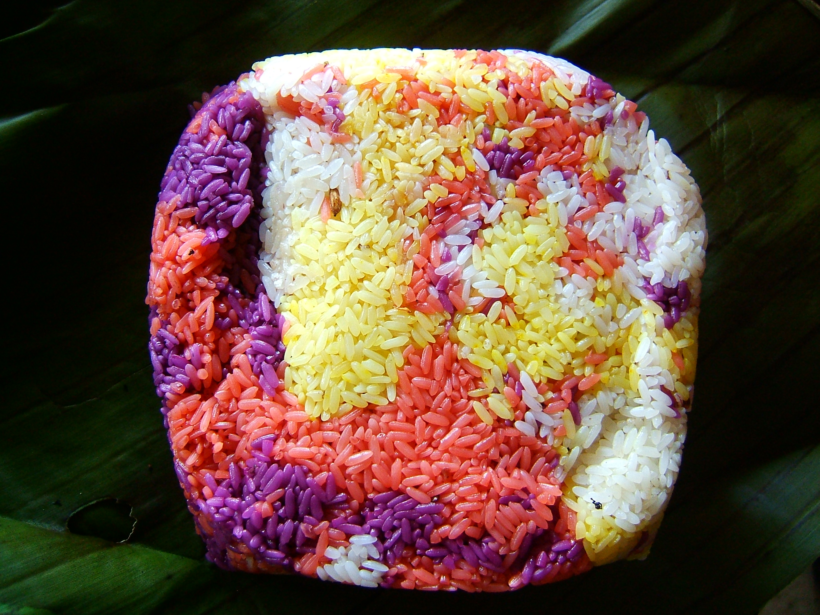 Five-colour glutinous rice in Sơn La, Vietnam